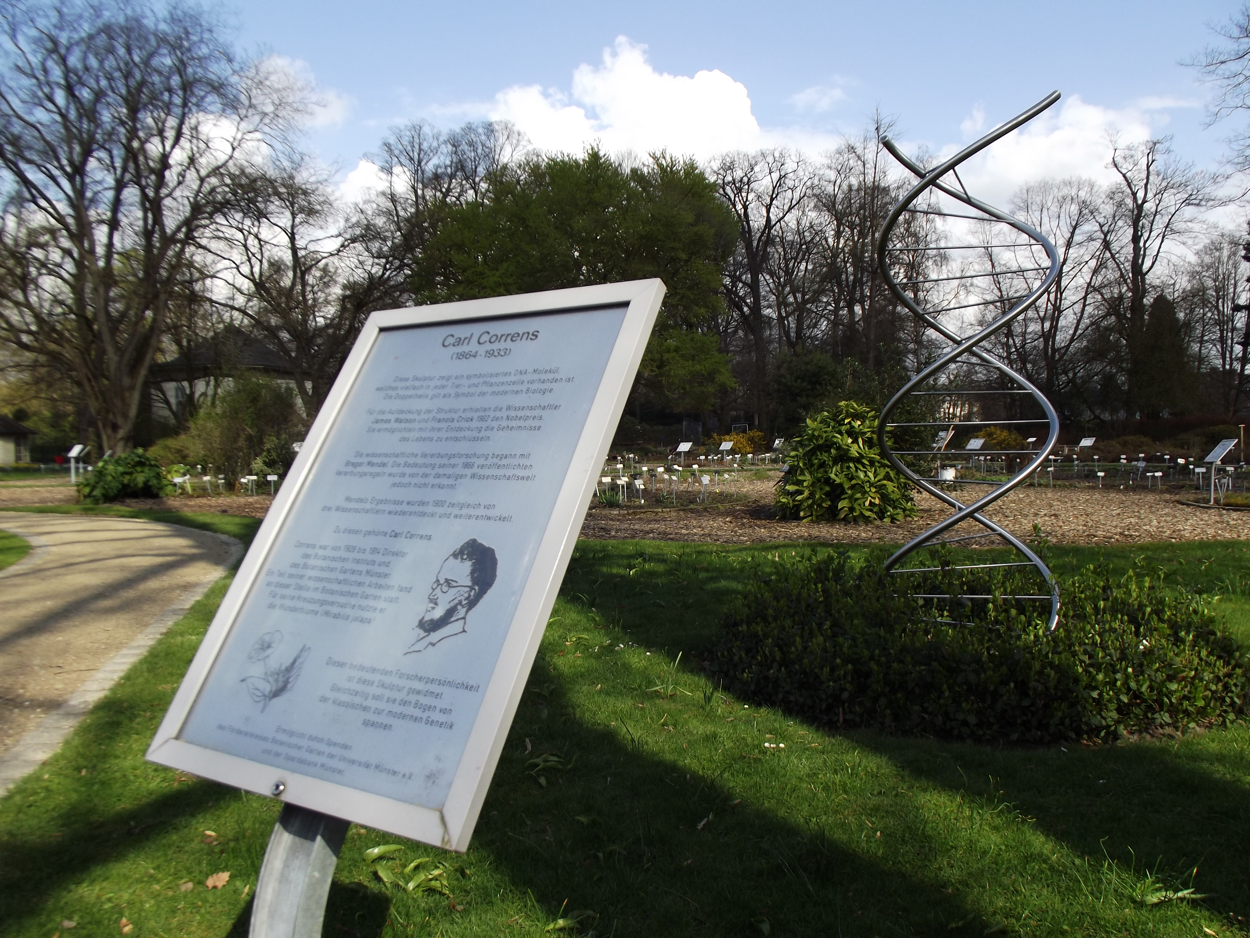 Carl Correns Memorial, Botanical Garden Münster